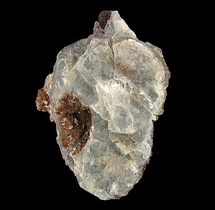 Leadhillite Locality: Tsumeb Mine (Tsumcorp Mine), Tsumeb, Otjikoto (Oshikoto) Region, Namibia (Locality at ) Size: 8.1 x 5.5 x 3.1 cm. This particular specimen is a very good sized Leadhillite crystal group from Tsumeb. It shows the classic grey-blue color, with above average luster, and typical layered form. The piece is associated with small botryoidal aggregates of a pink mineral (possibly Mn-Calcite).